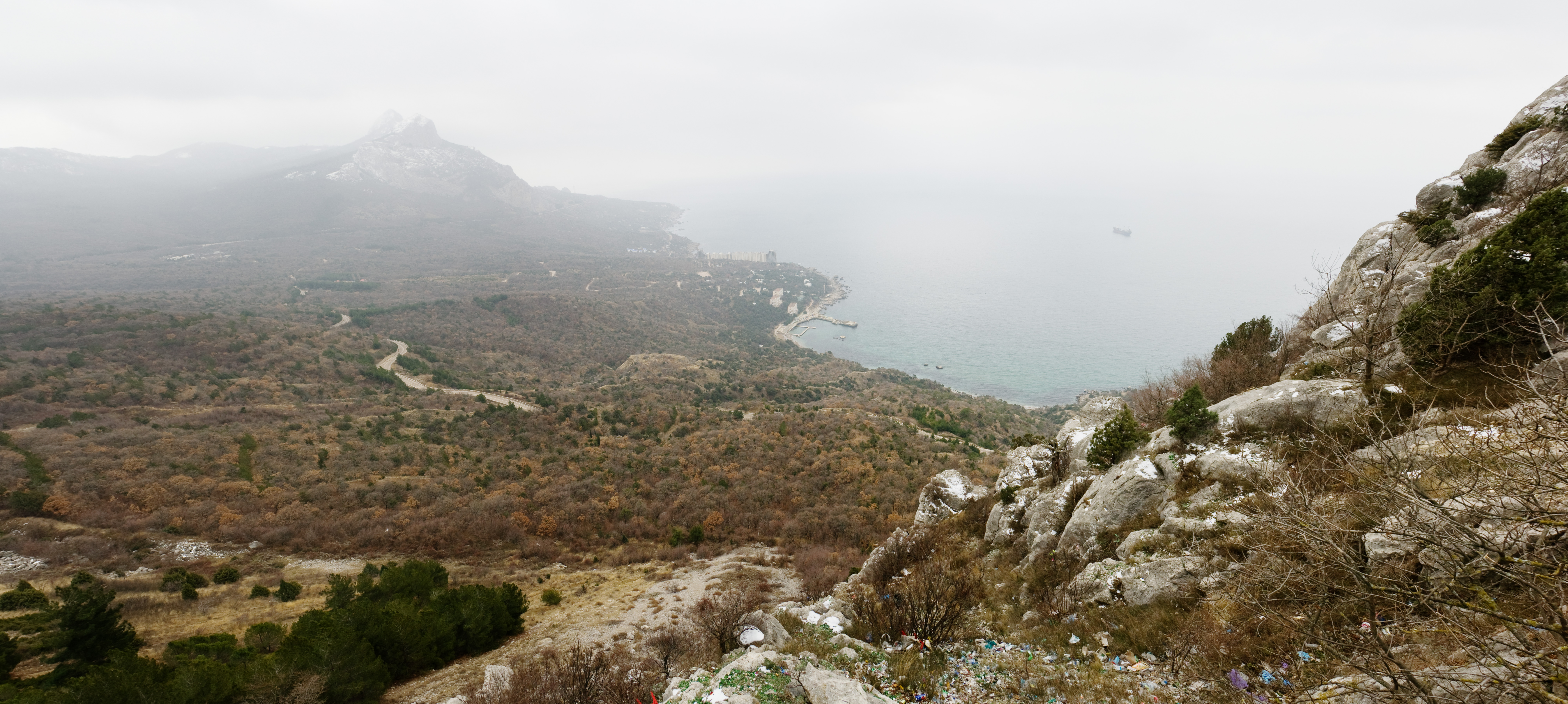 Laspi bay, Crimea